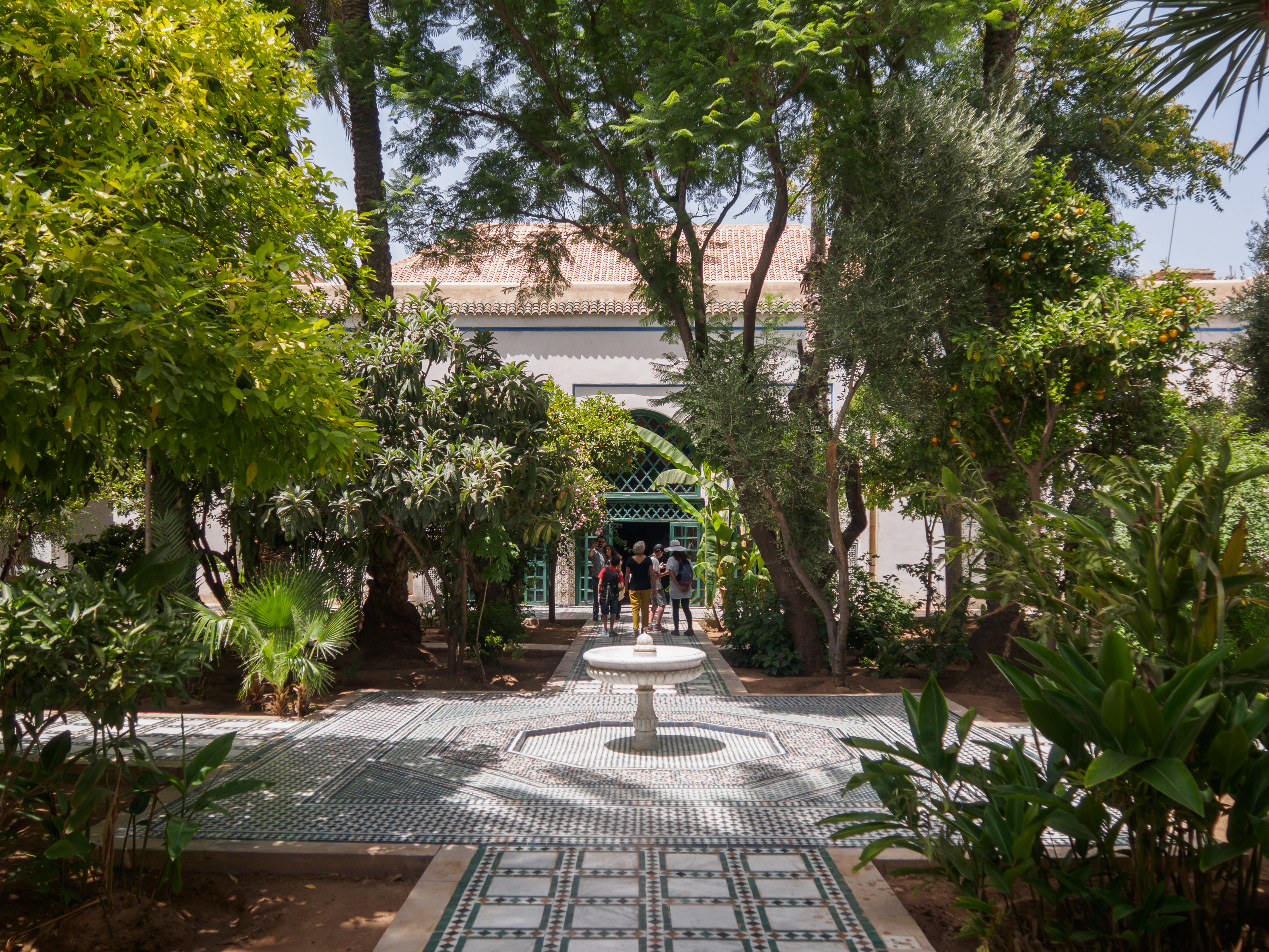 Bahia Palace - the large riad garden